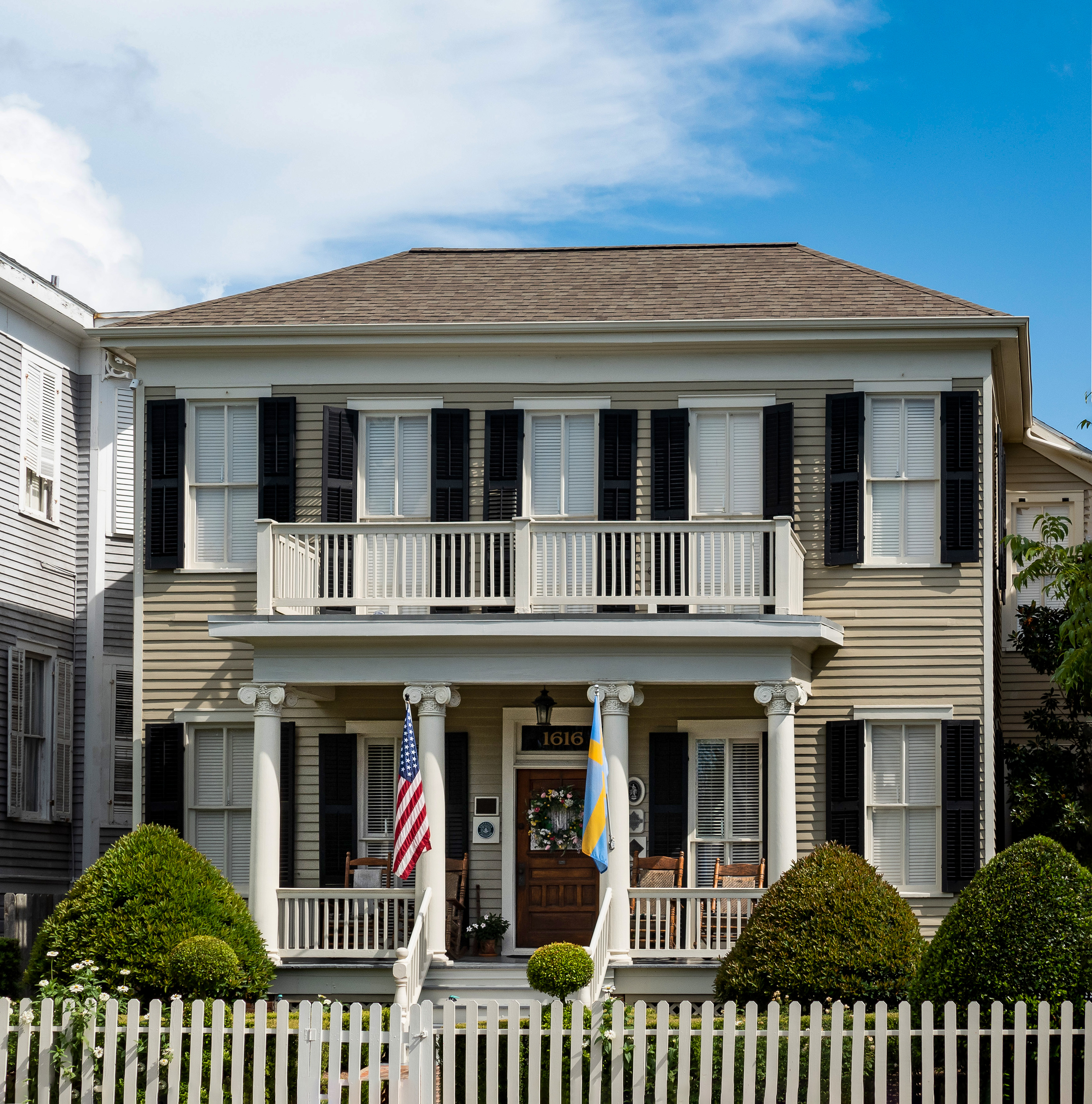 Born in Bremen, Germany, Mathilda Wehmeyer (1839-1903) arrived in Galveston in 1870. She advertised teaching services for young children, particularly those from Galveston's large German-American community. Her teaching philosophy focused around the German concept of "kindergarten." After initially operating from a house on Ball, she purchased this lot in 1880 for her school. The original house on the lot burned in the 1885 fire that destroyed 40 residential blocks of Galveston's East End. In 1887, Mathilda constructed the existing Italianate building to serve as her house and school. In 1891, Mathilda reopened the school, which she operated here until 1898. She continued to live in the house until she was displaced by the Great Storm of 1900.